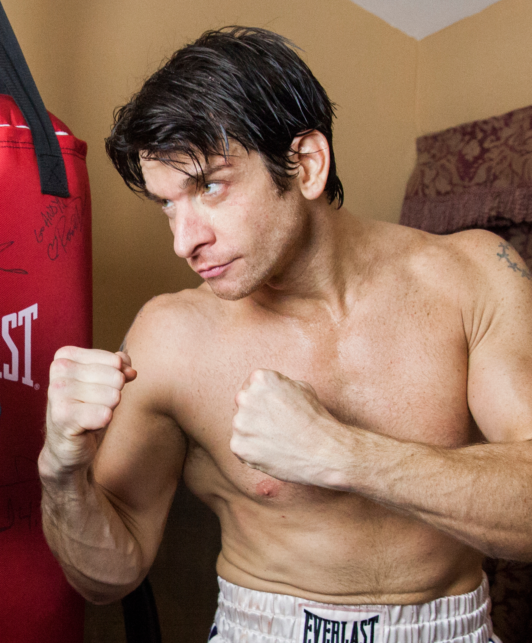 Actor Andy Karl of the Broadway show "Rocky the Musical" poses in a fight stance in New York City, N.Y., June 24, 2014. The new musical is based on the Academy Award-winning film of the same name, which starred Sylvester Stallone in the title role.